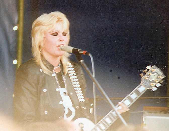 Norwegian singer Gry Jannicke Jarlum